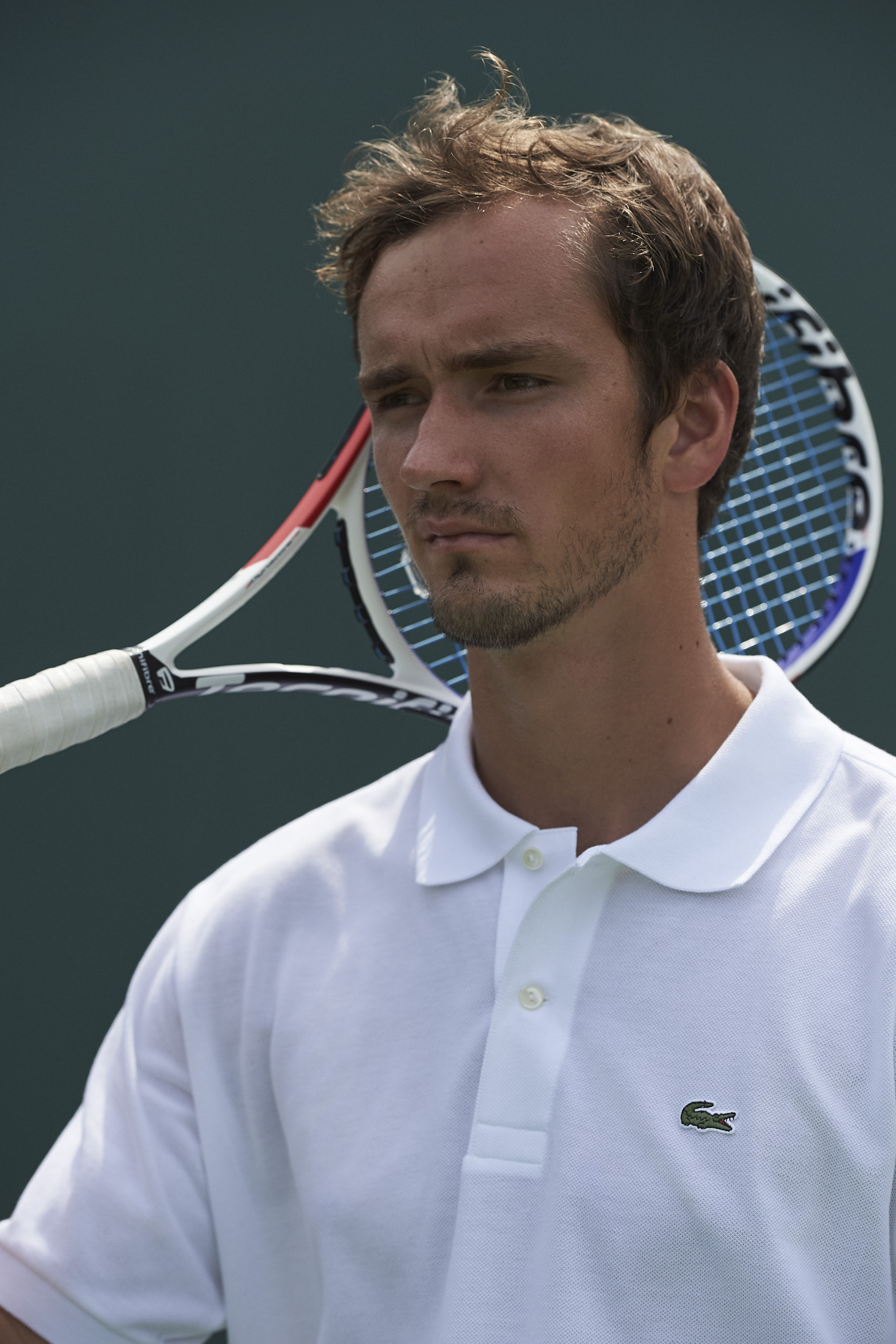 Daniil Medvedev portrait